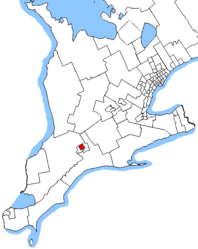 Map of London North Centre.